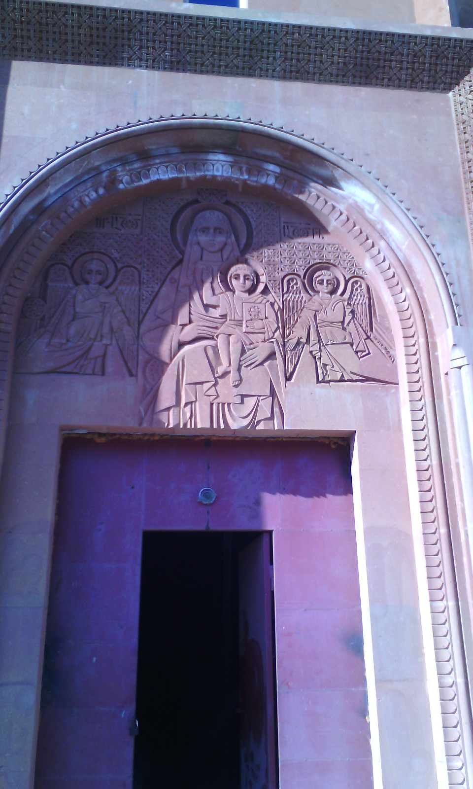 Eastern entrance to the church